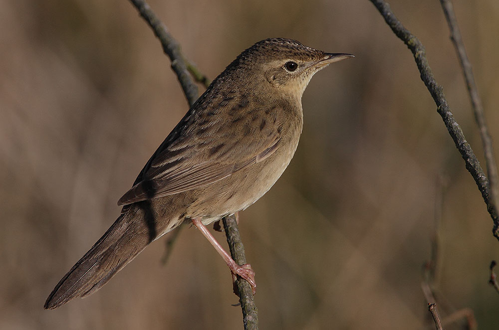 A very obliging bird on territory at Cullaloe LNR, West Fife, Scotland.